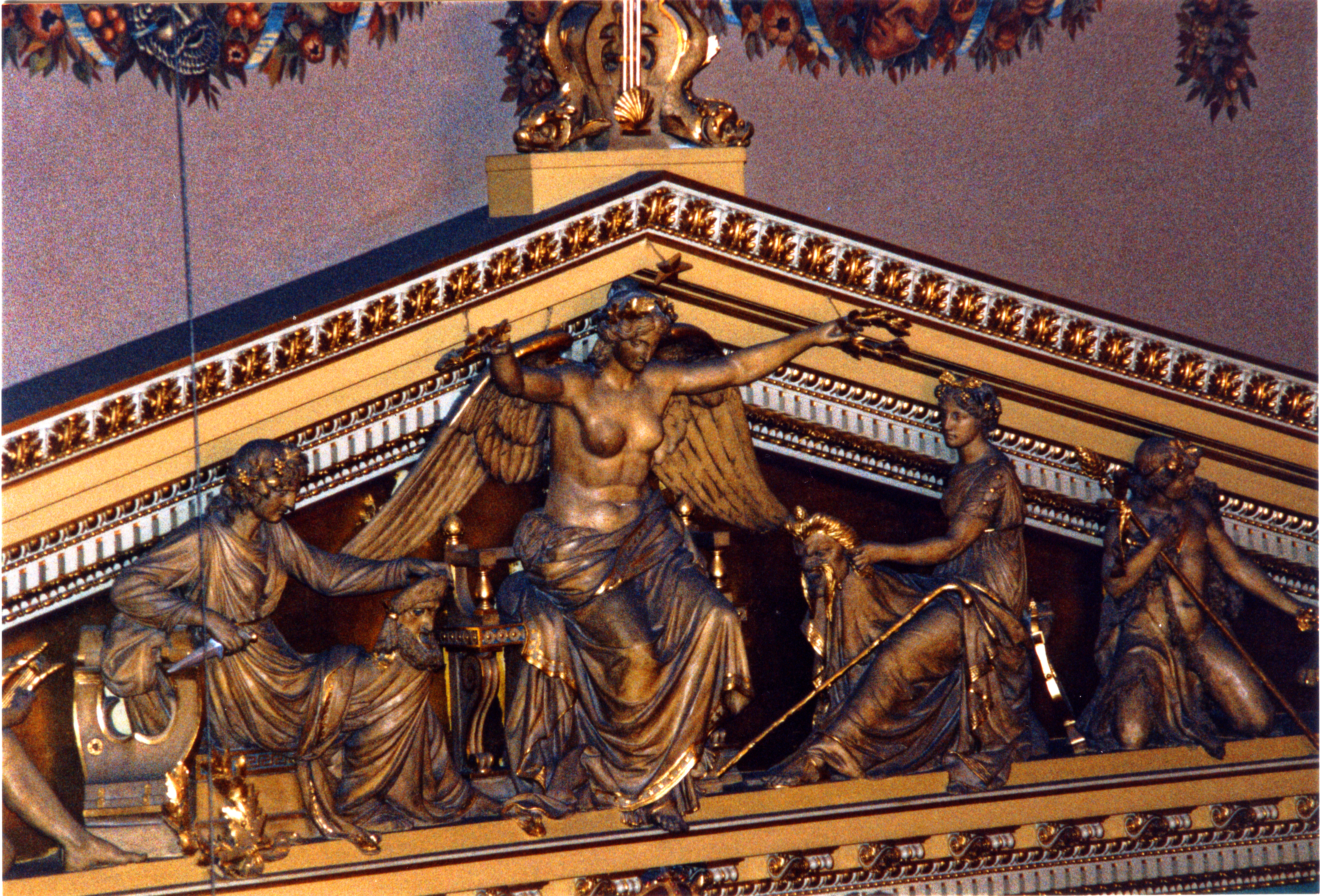 Praha State Opera Neorenaissance